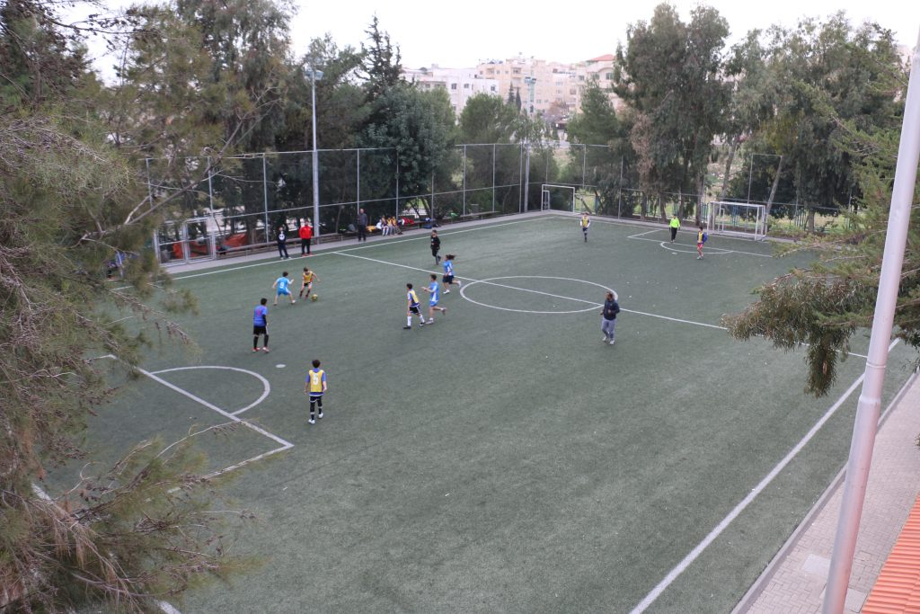 Students practicing during an after-school soccer training at Abdul Hamid sharaf School.